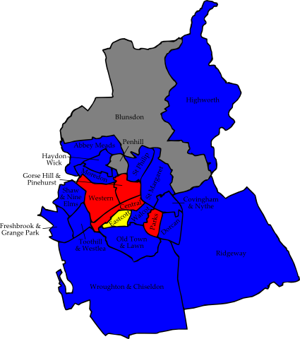 A map of the results of the 2008 Swindon Council election. Colour legend by wards won: Conservative party Labour party Liberal Democrats Wards in grey were not contested in 2008.